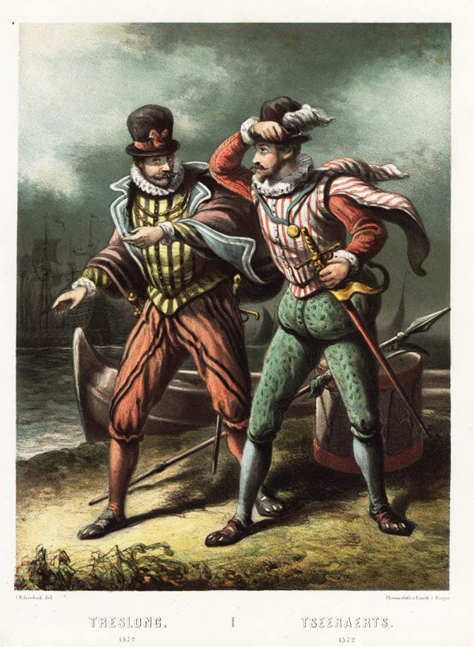 Willem Bloys van Treslong (1529-15) / Jerome T'Seraerts (1540-1573)